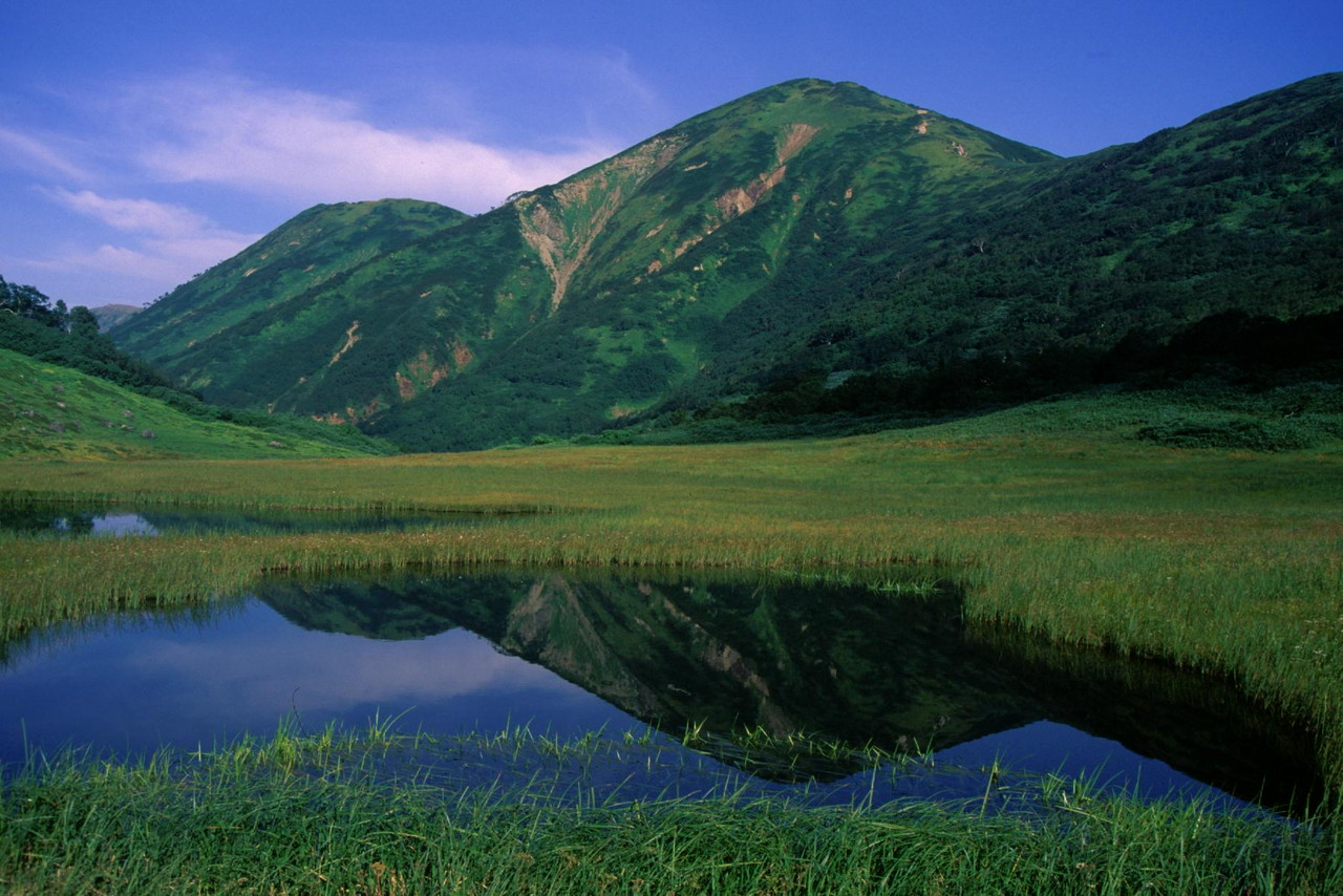 Hiuchitama from tengunomiwa 1999-9-4